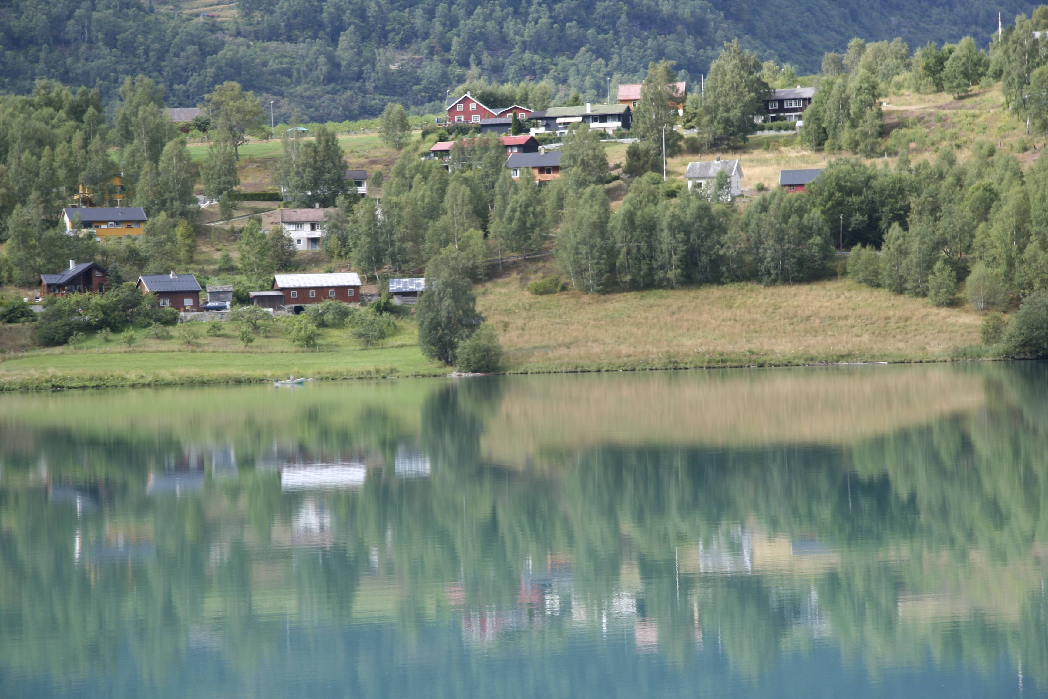 Description: Parts of the village of Skjolden, Norway. Source: Own work Date: august 2005 Author: Jostein Sand Nilsen Permission: CC-BY 2.5